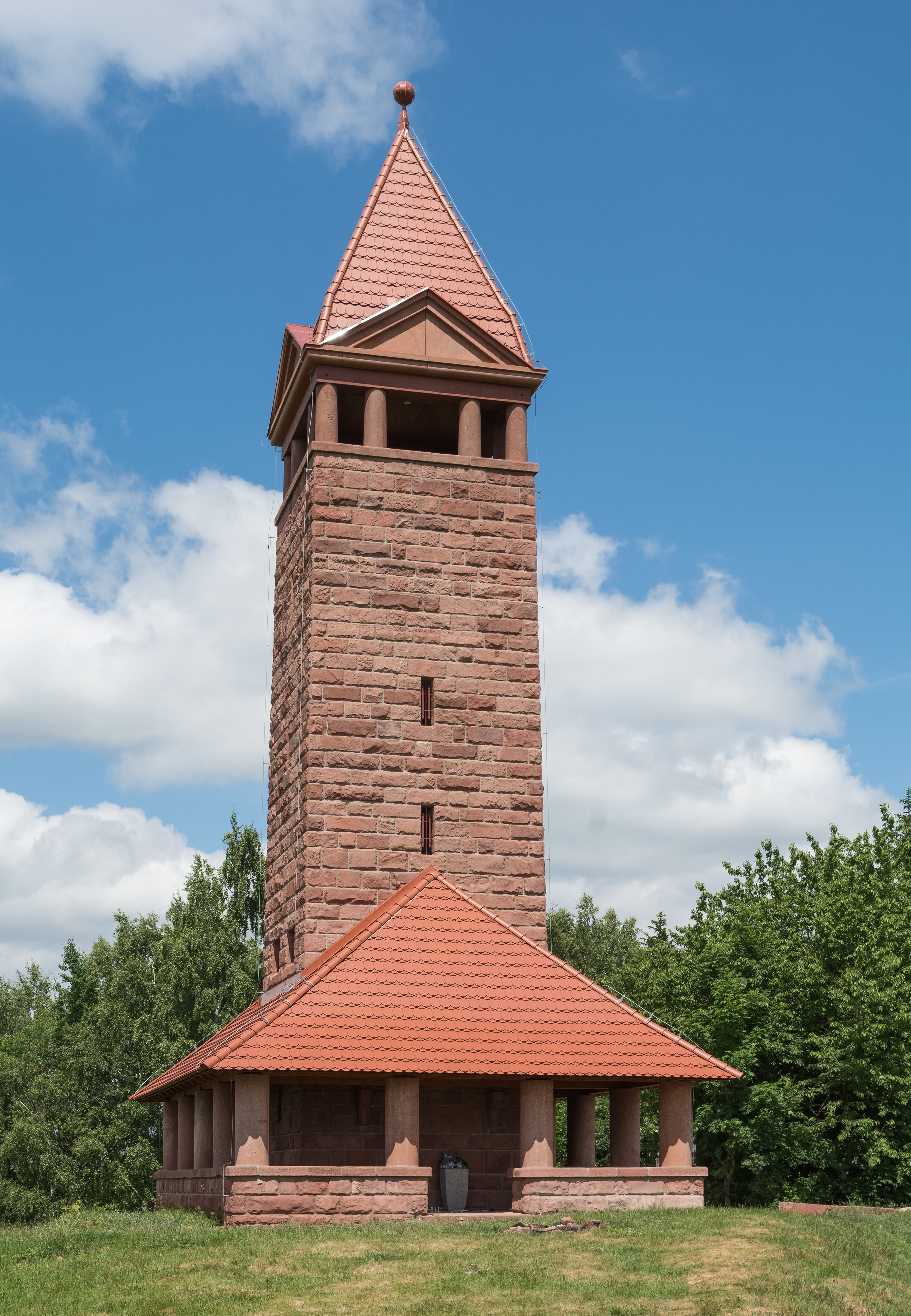 Observation tower on St. Anna’s Mountain in Nowa Ruda